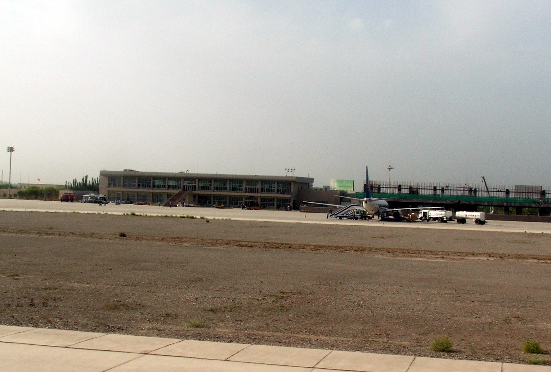 Kashgar Airport in the Xinjiang Uygur Autonomous Region of the People's Republic of China. ئۇيغۇرچە / Uyghurche: قەشقەر ئايىرپورت